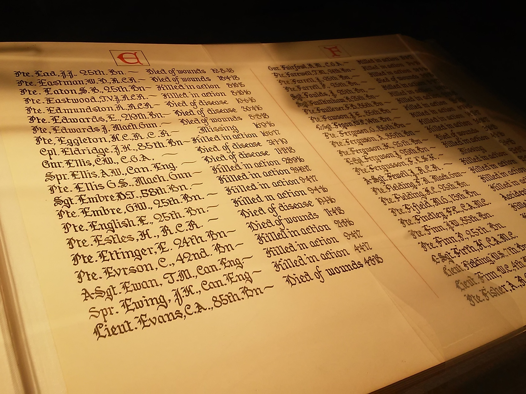 One of the three books of remembrance on display at the Halifax Central Library